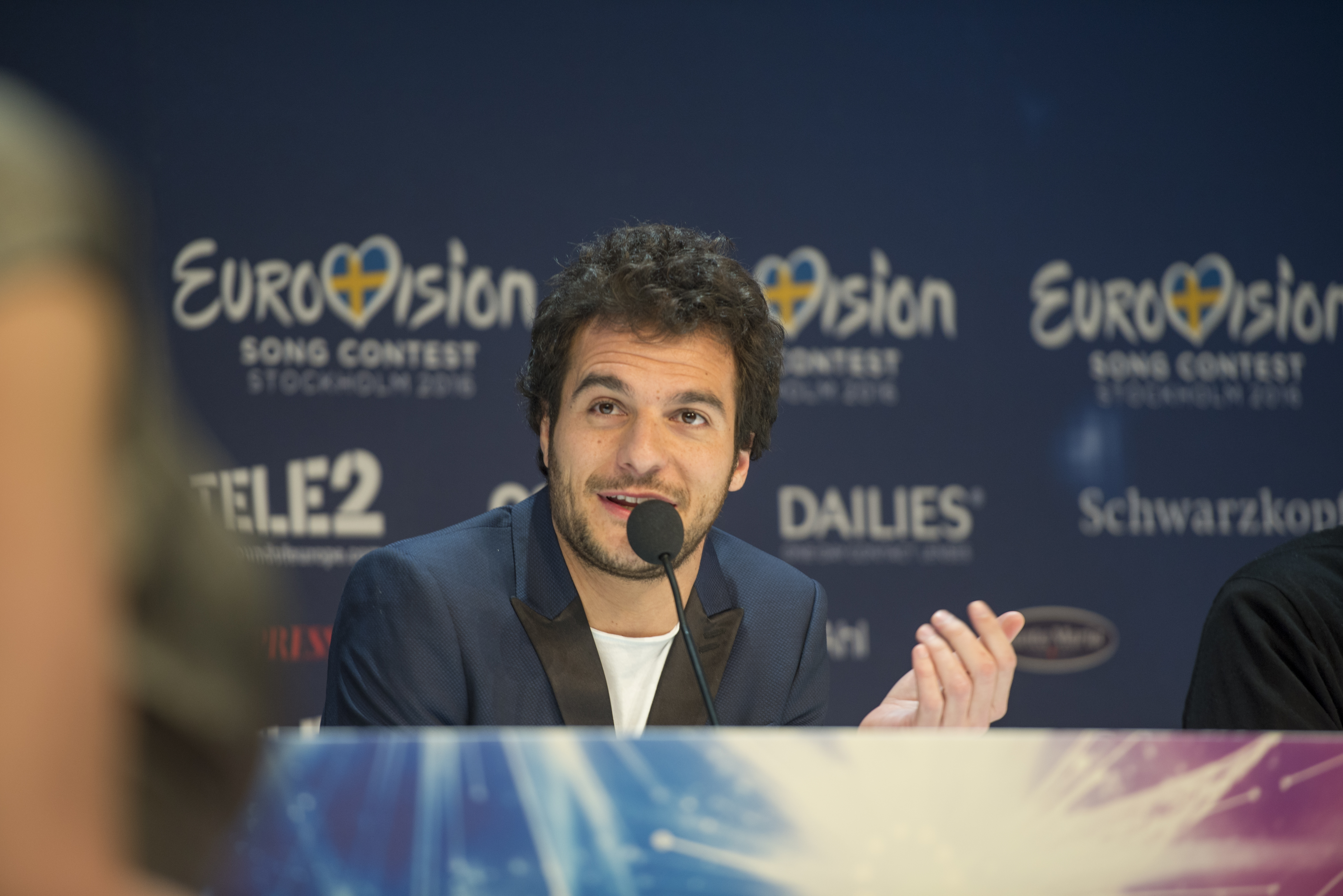 Amir at a Meet & Greet during the Eurovision Song Contest 2016 in Stockholm. (Help translate this text)